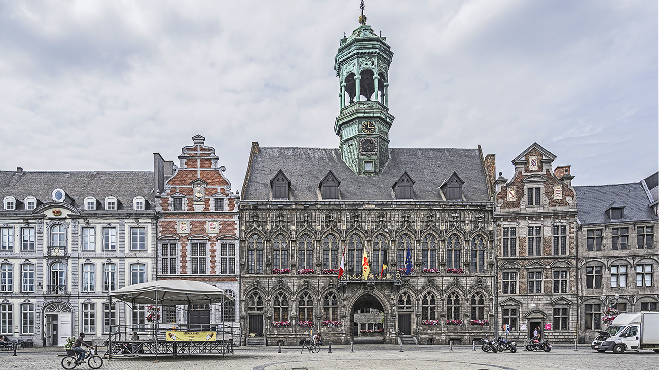 City council, Mons, Belgium